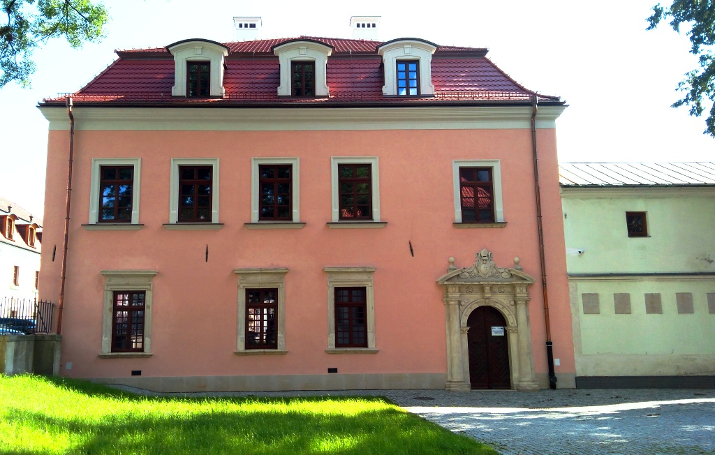 One of the buildings of the Zamość cathedral, Sacred Museum of the Zamość Cathedral (after repair in 2020)